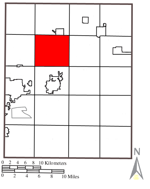 Map of Portage County, Ohio with Shalersville Township highlighted.